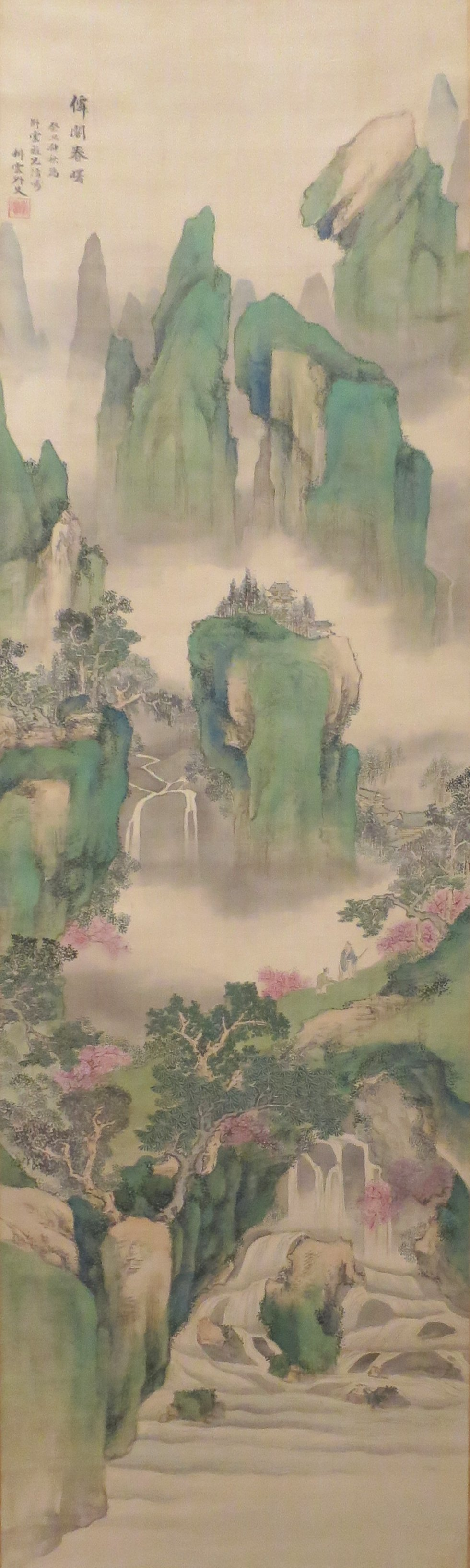 Immortal's Pavilion in Spring Daybreak by Haruki Nanmei, ink and color on silk, 1853, Honolulu Museum of Art, accession 13185.1